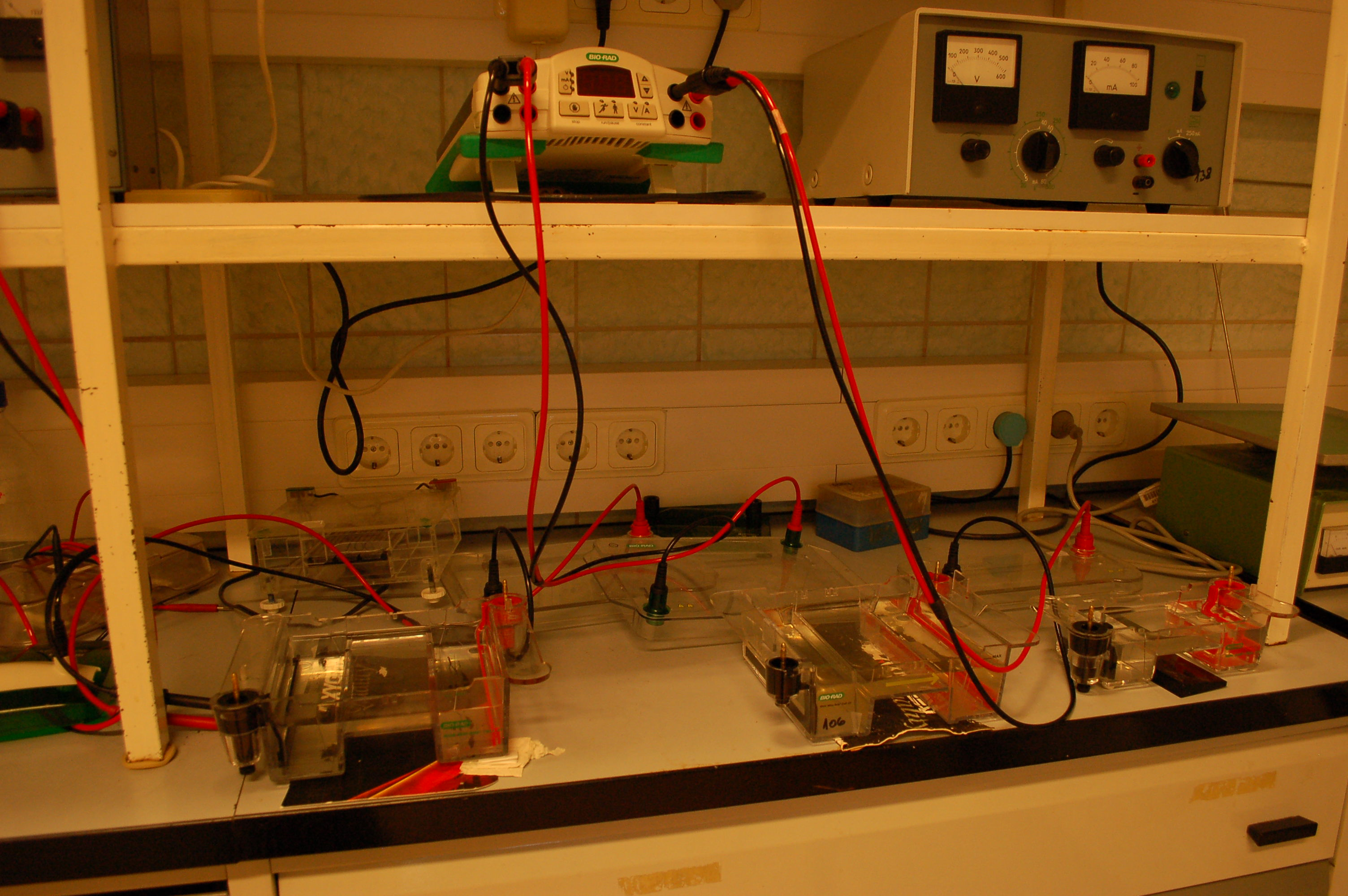 Et eristada geelil erineva suurusega valke või DNA fragmente, kasutatakse neid anumaid ja elektrivooluga varustavaid masinaid.